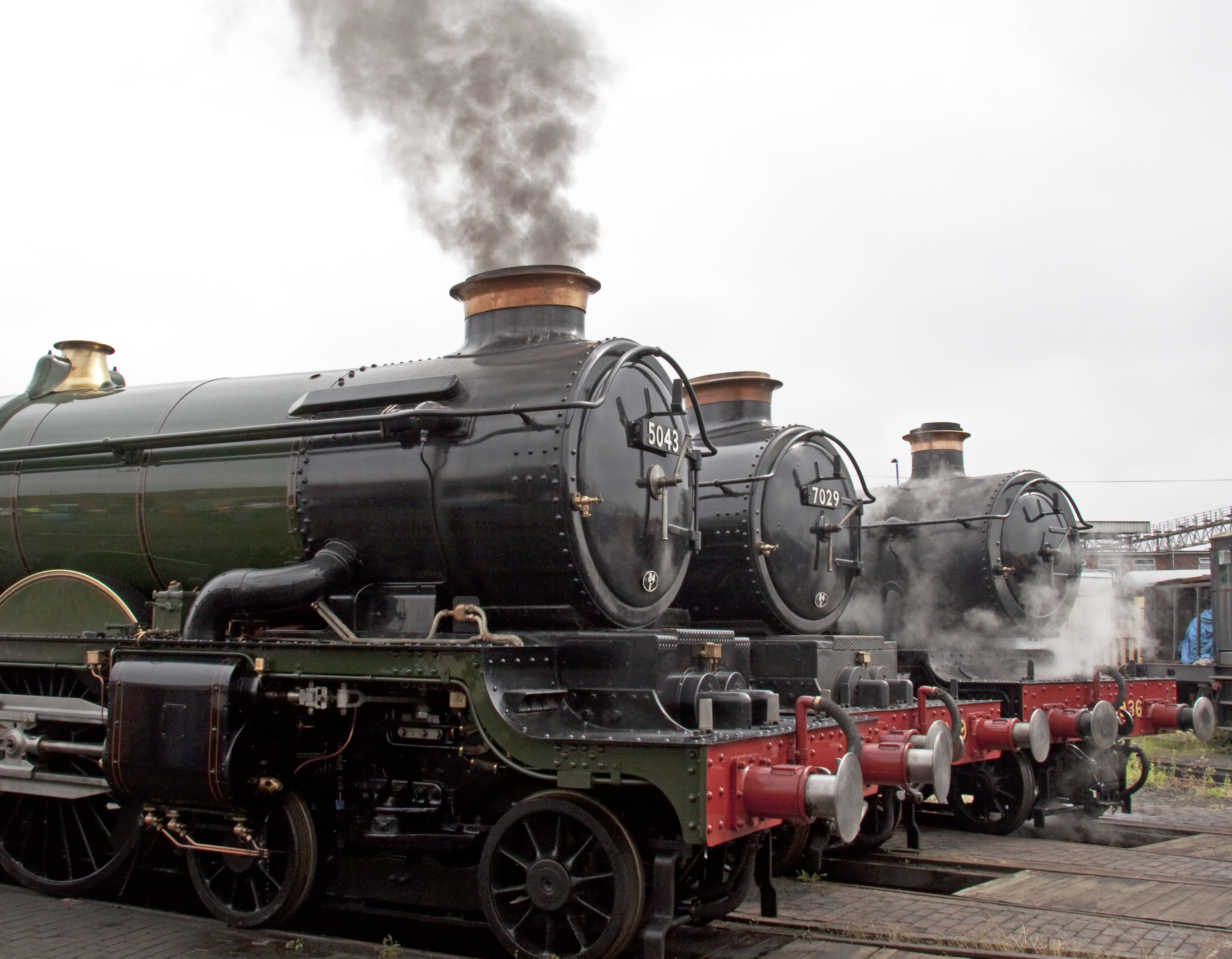 Earl of Mount Edgcumbe, Clun Castle and Kinlet Hall